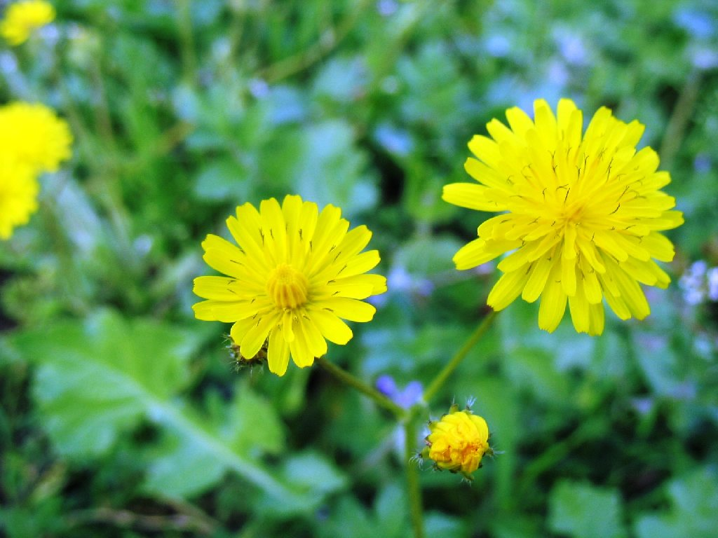 Holy hawksbeard (Crepis sancta)